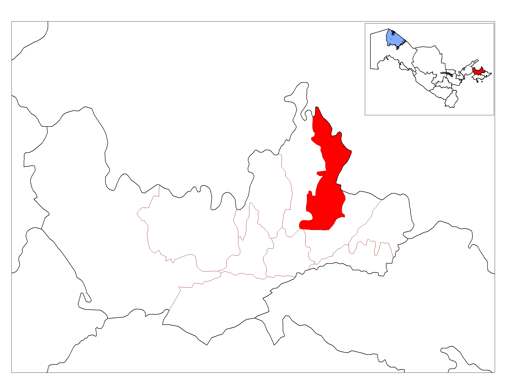 Location map of Chortoq District in Namangan Province